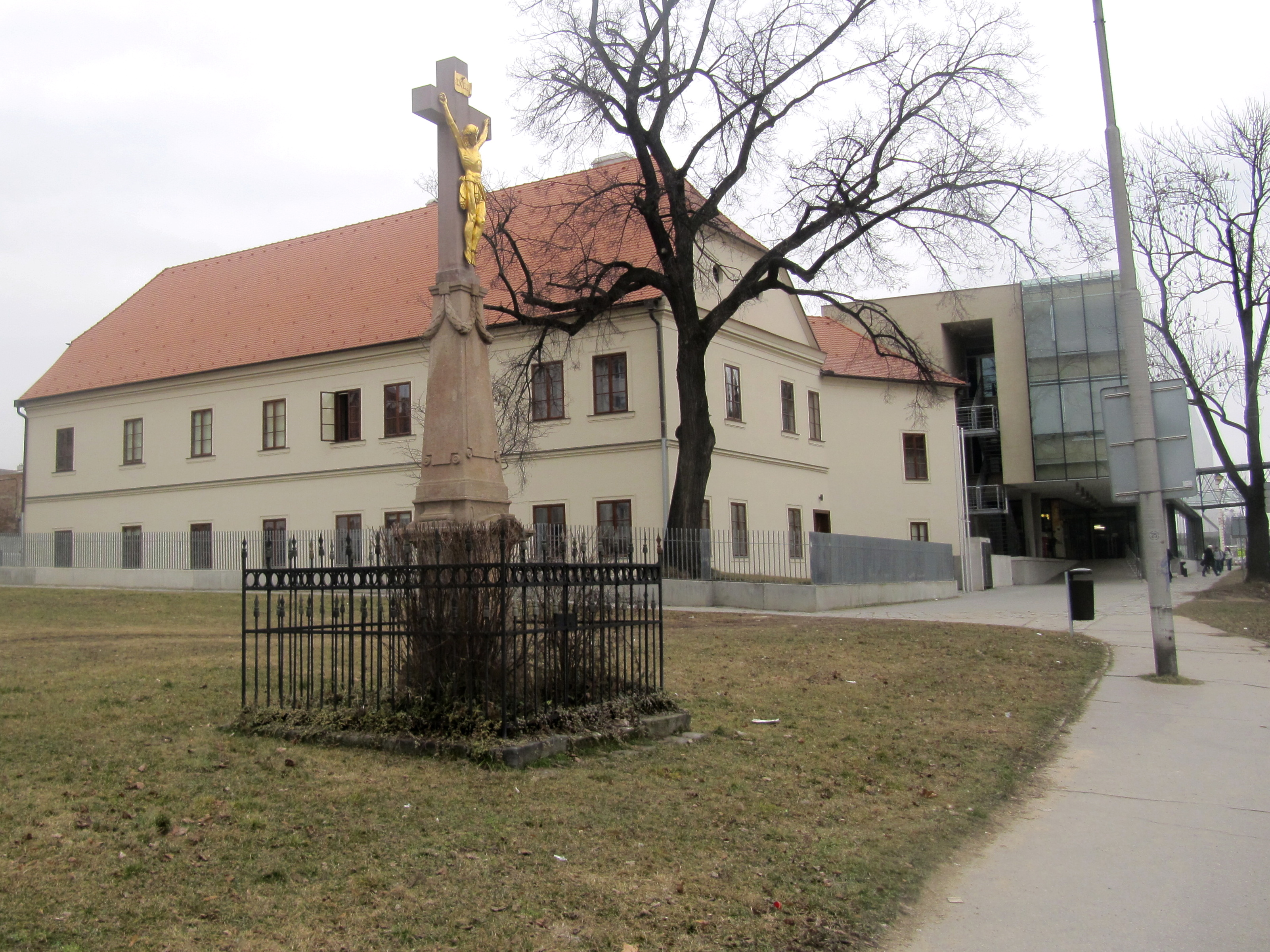 Brno, part Královo Pole, Czech Republic. Square Mojmírovo náměstí, crucifix from 1791.